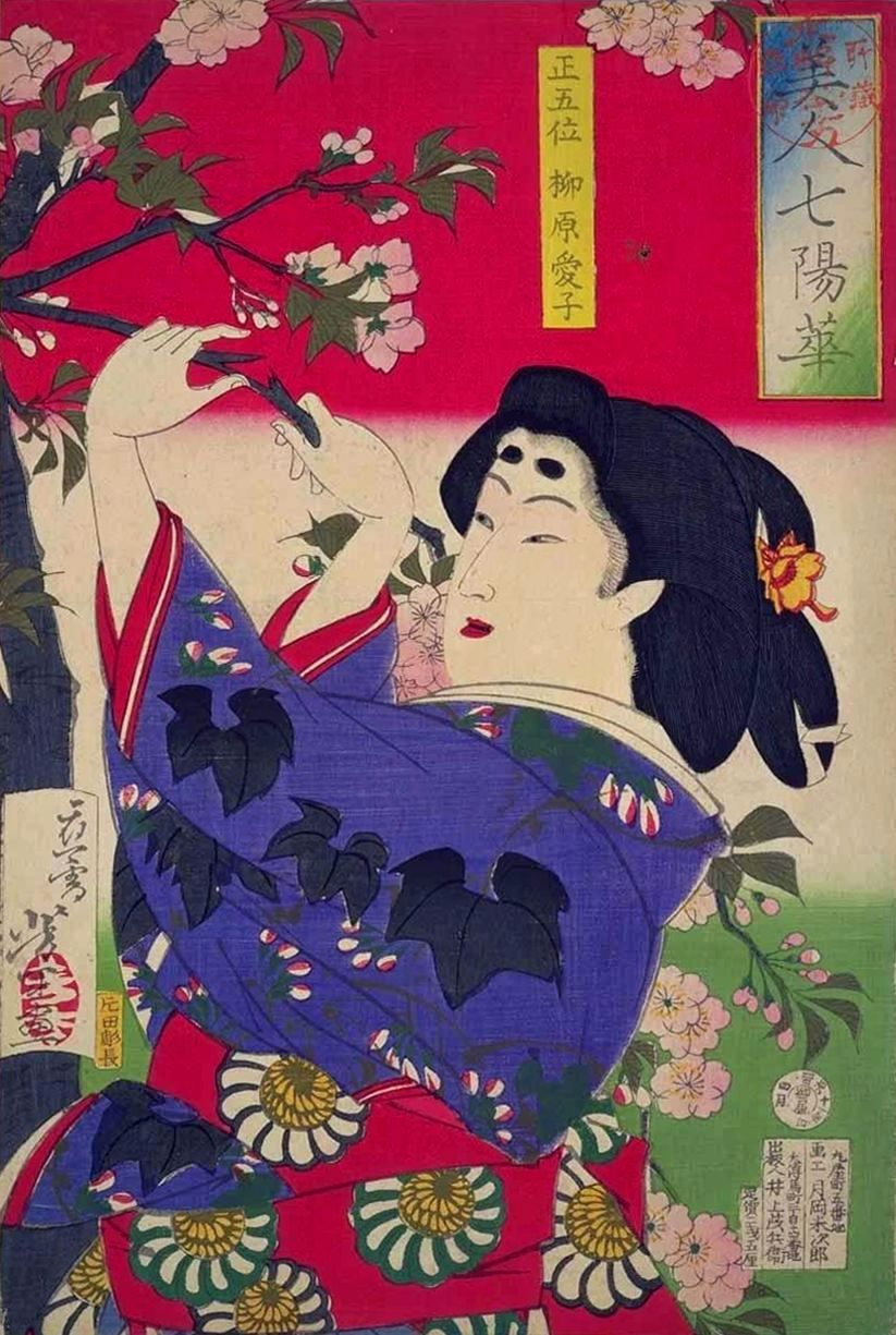 Yanagiwara Naruko, the mother of Emperor Taishō.